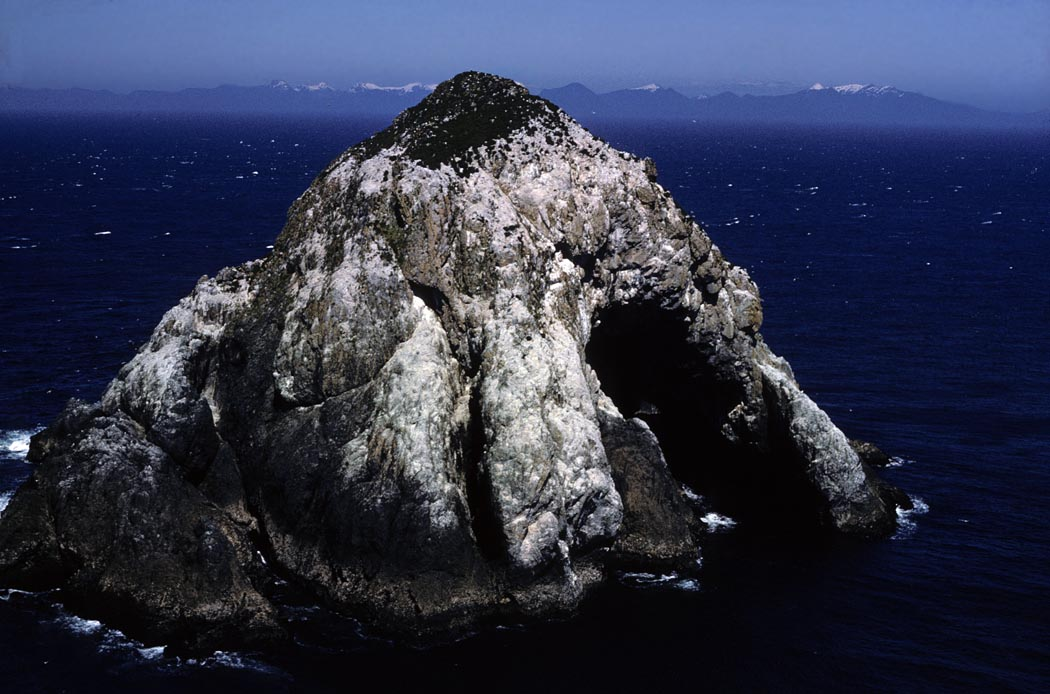 Hazy Islet, part of the Hazy Islands Wilderness in Alaska, USA.